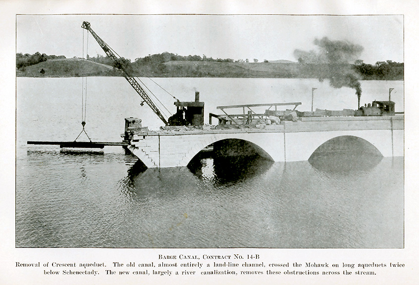 Dismantling the Crescent Aqueduct, from Annual Report of the State Engineer and Surveyor of the State of New York for the fiscal year ended September 30, 1915.